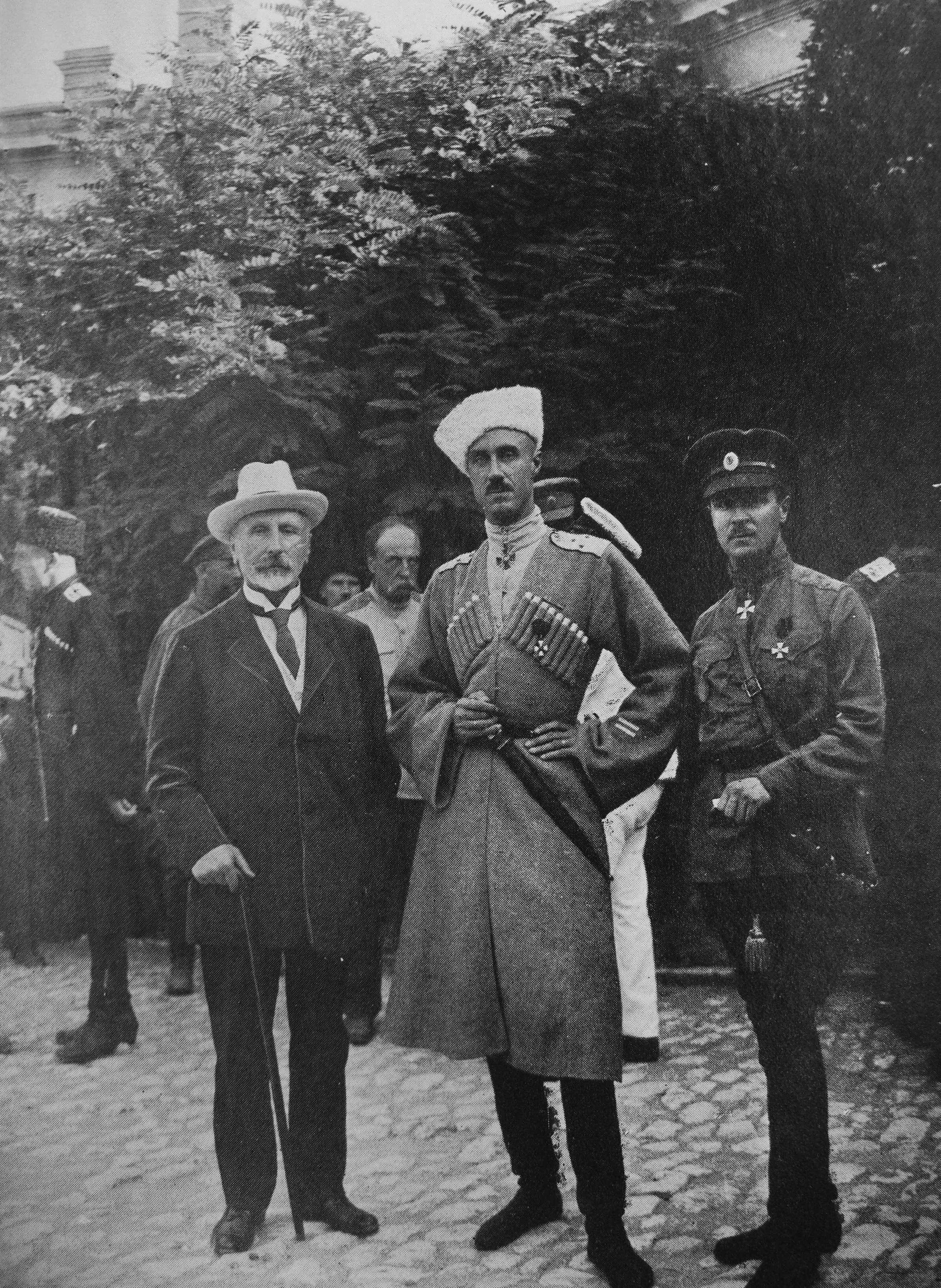 A. V. Krivosheev, P. N. Wrangel, general P. N. Chatilov, Crimea, summer 1920.